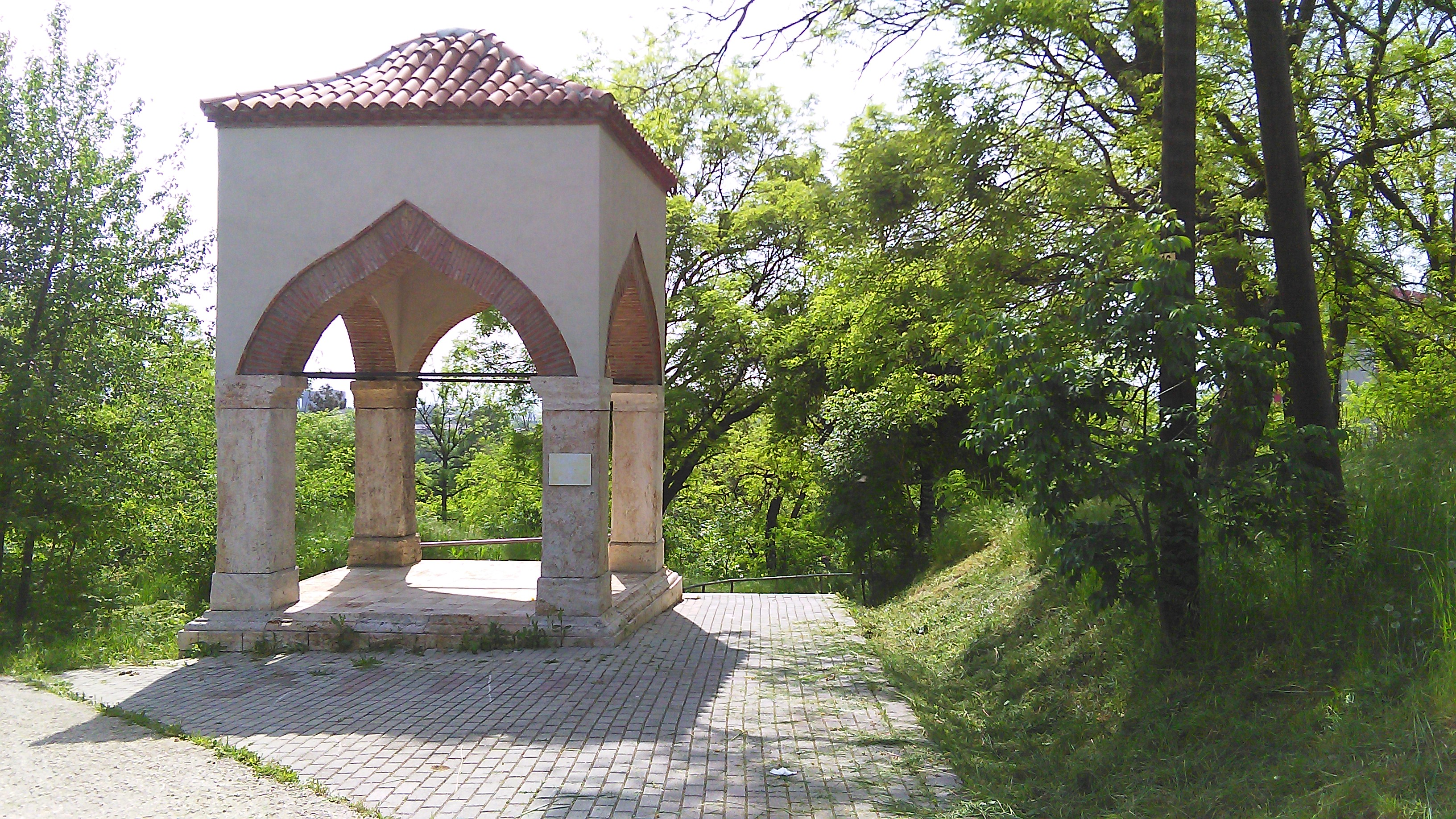 Gazi Baba Forest, Skopje Macedonia